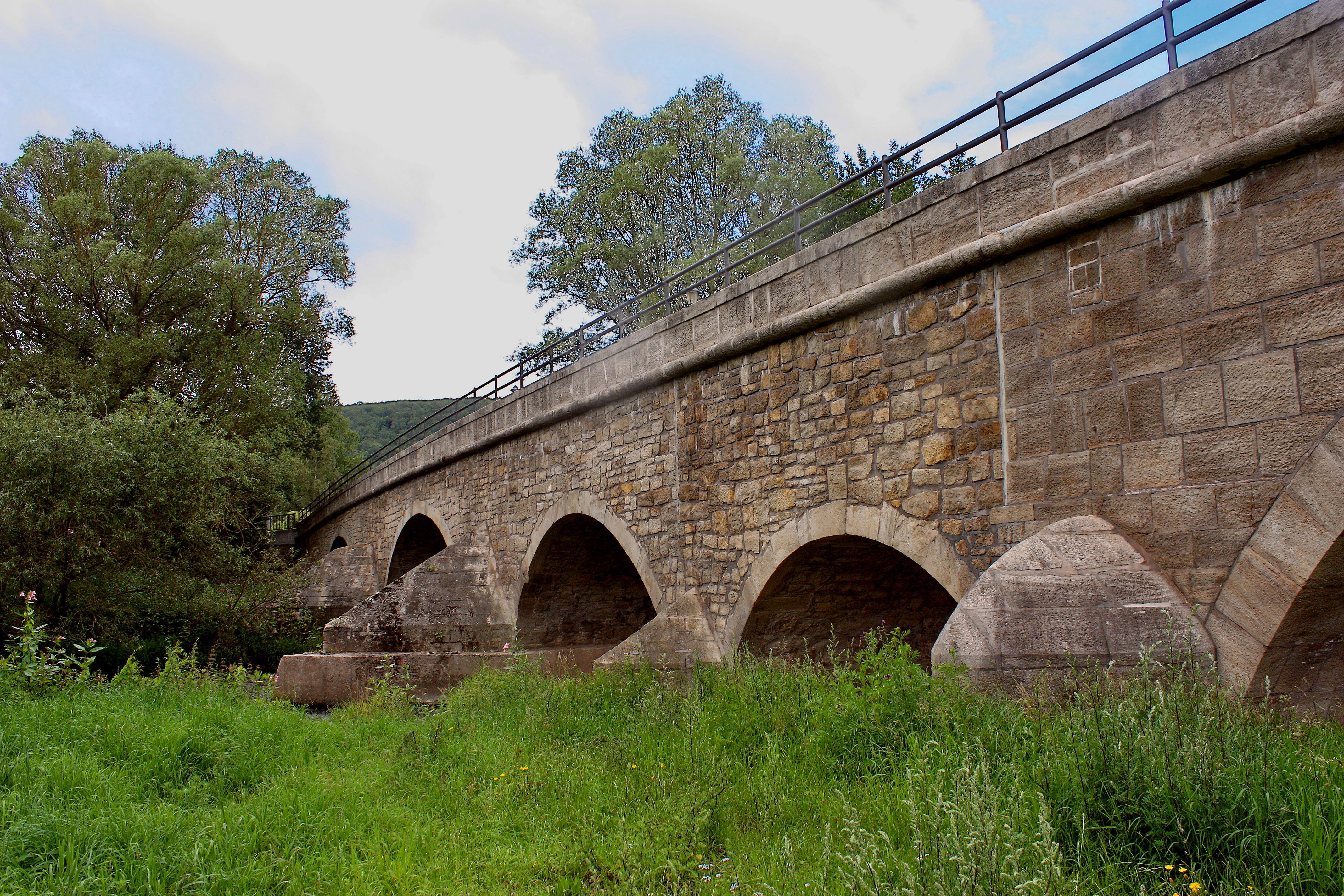 Stone Bridge near Untermassfeld over the Werra River